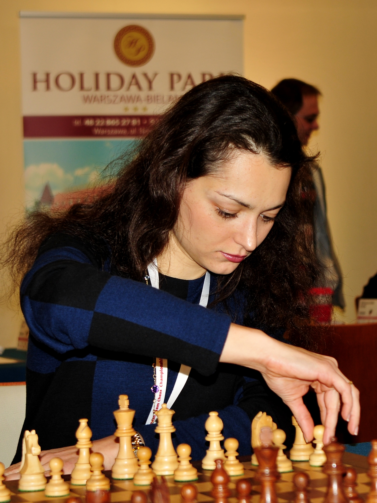 GM Alexandra Kosteniuk, European Chess Team Championship Warsaw 2013